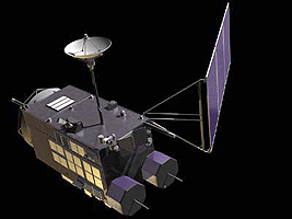 Three-dimensional model of japanese space probe Kaguya (kown also as Selenological and Engineering Explorer and SELENE), launched on September 14, 2007 and developed for the exploration of the Moon.